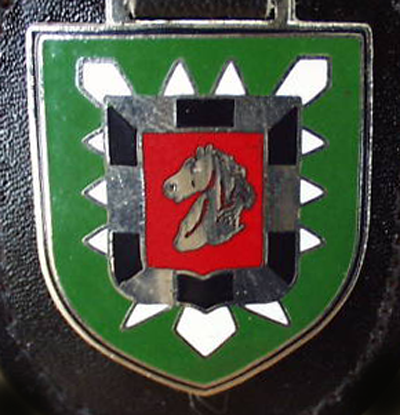 Staff & HQ Coampany 16th Armored Grenadiers Brigade